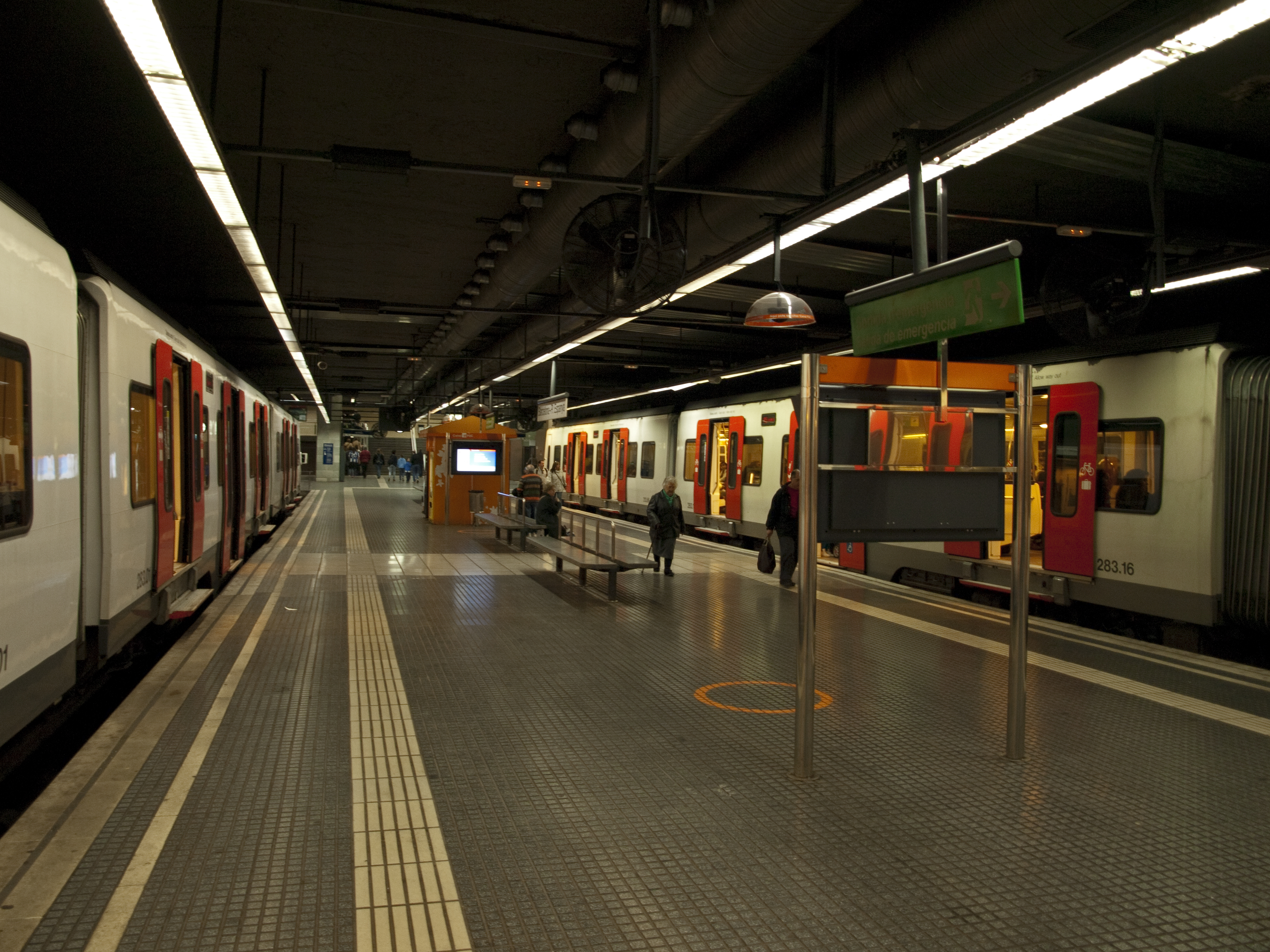 Barcelona, Espanya Metro and railway station, Line L8